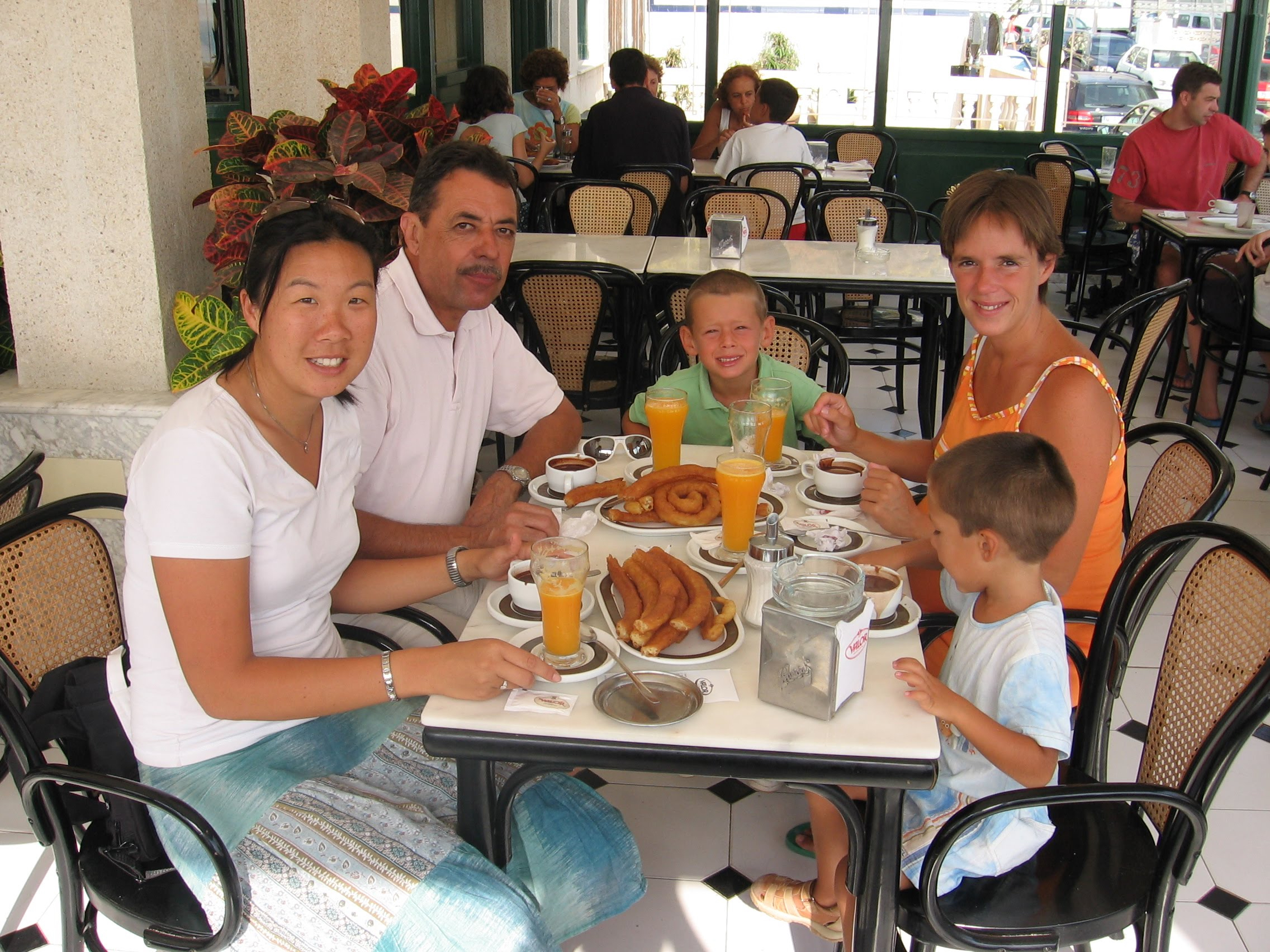 World no. 26 Alex de Minaur, with family & his first coach, Cindy Dock of Strathfield, Australia, in Alicante Spain 2005